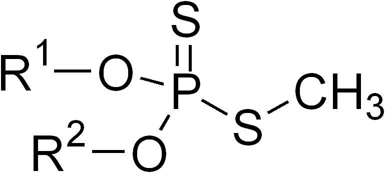 general chemical structure of a methyl dithiophosphate